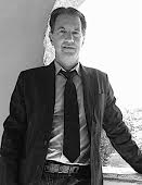 This is a photo of designer Ron Miriello, shot in Italy.